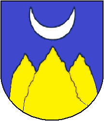 Coat of arms of Roche-d'Or, Canton of Jura, Switzerland